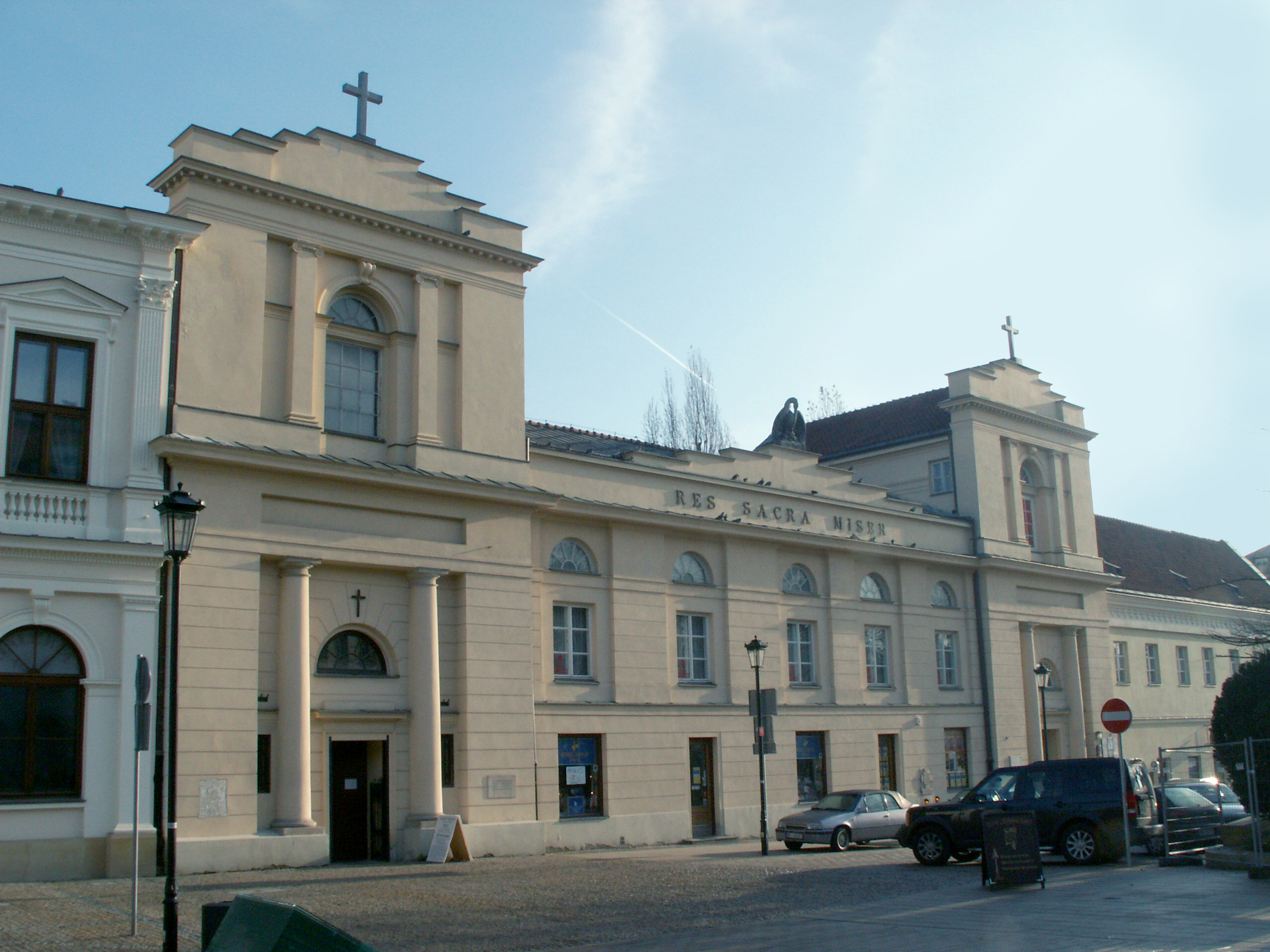 Budynek Res Sacra Miser